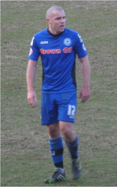 Dawson with Rochdale V Scunthorpe 2015.